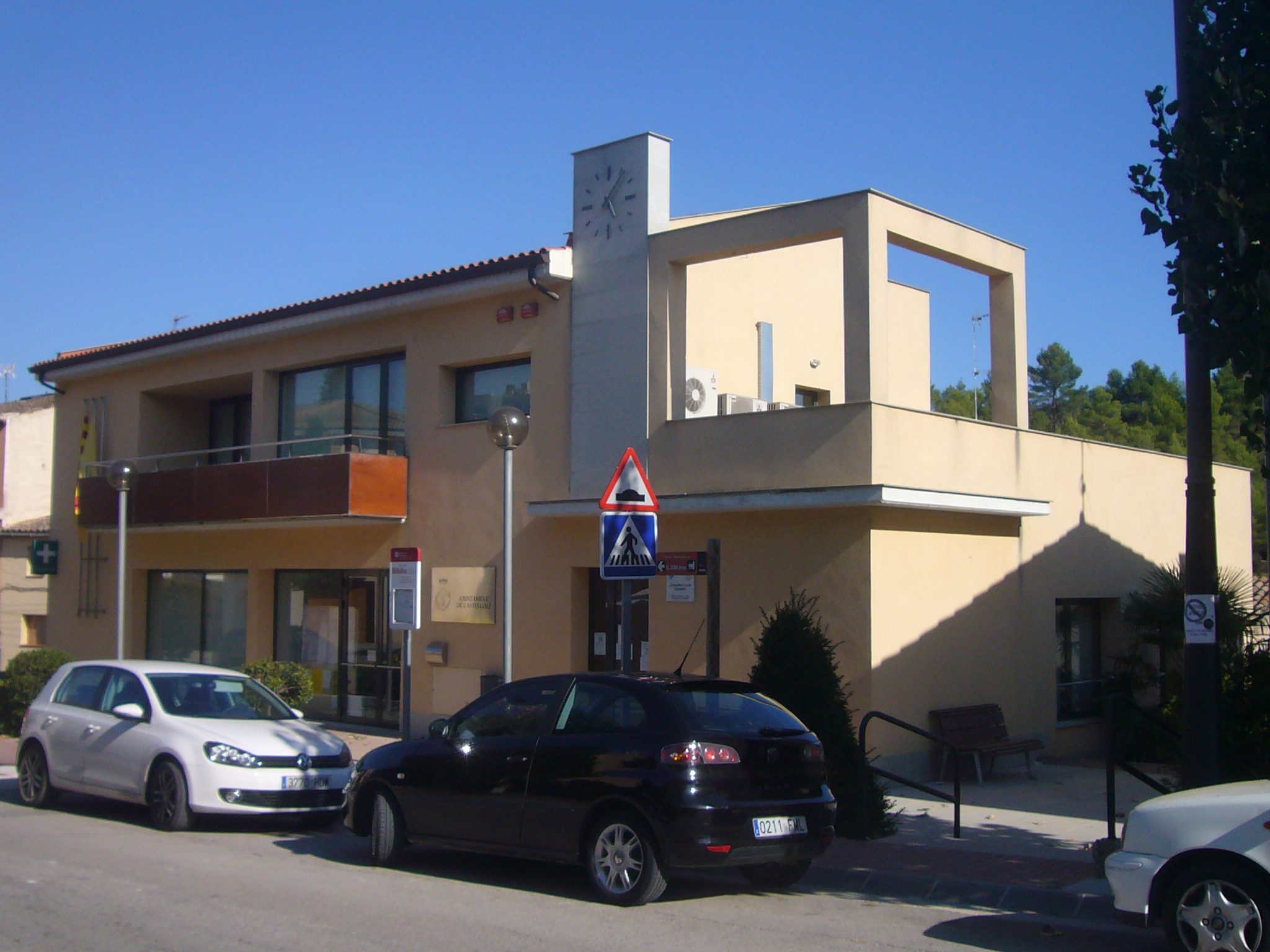 Castellolí town hall